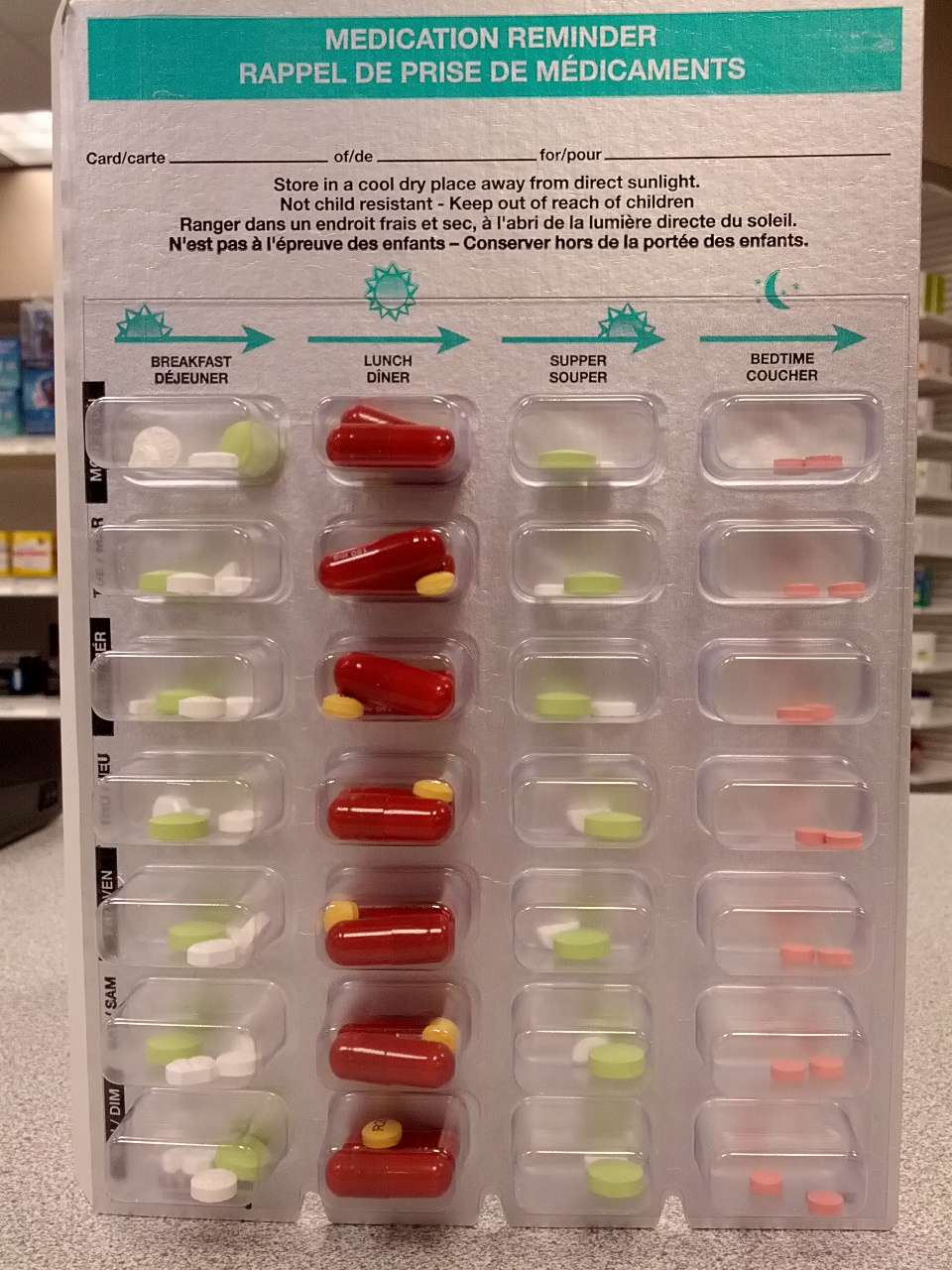 multiple medications in blister pack provided by pharmacist to ensure no medications are missed by patient